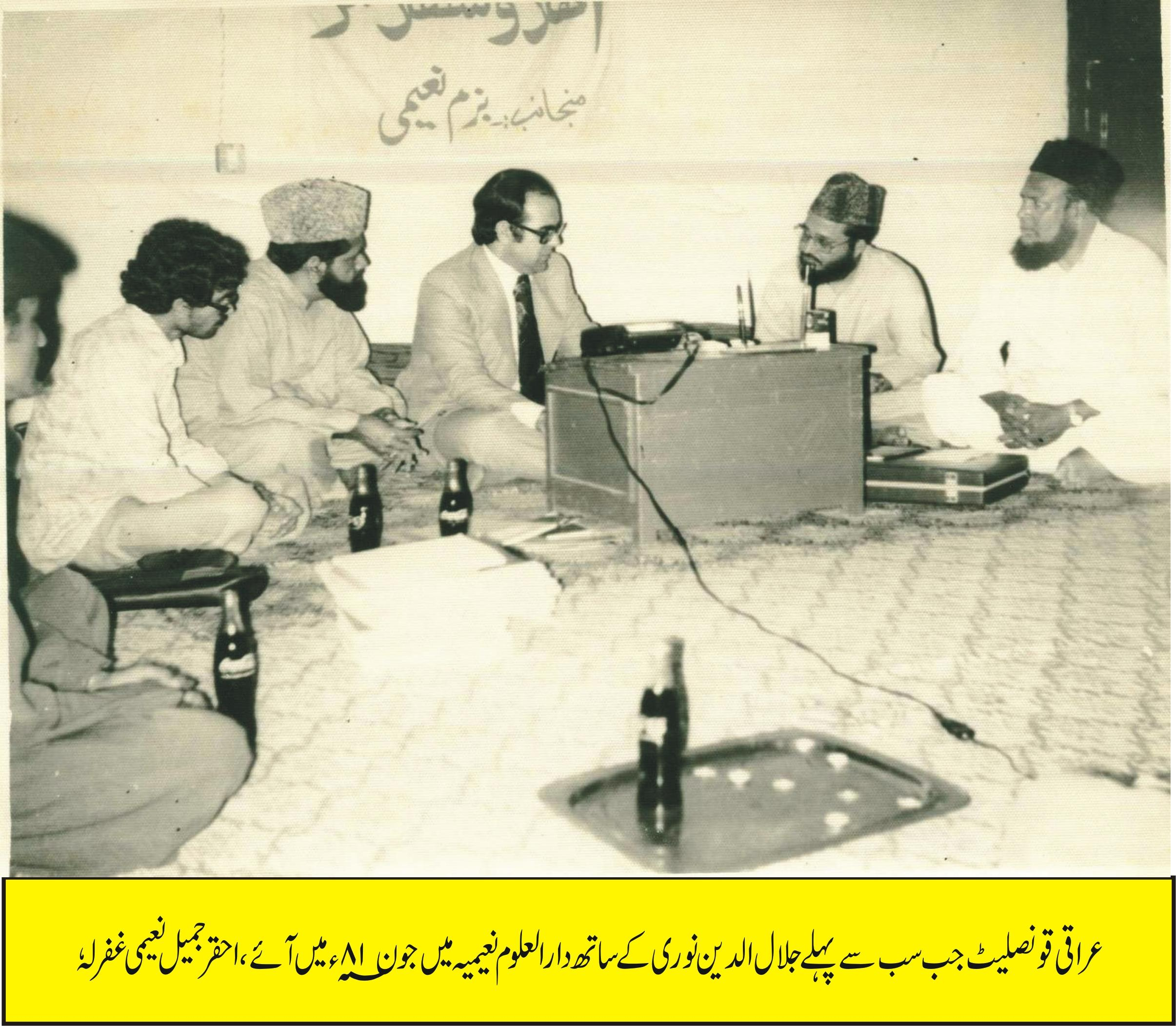 Iraqi consulate's first visit with Jalal-uddin Noori at Daral-ullum Naeemia